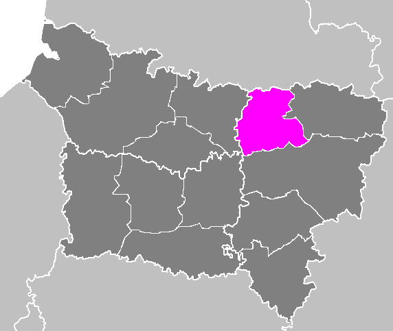 Maps of arrondissements and cantons of France: Arrondissement de Saint-Quentin